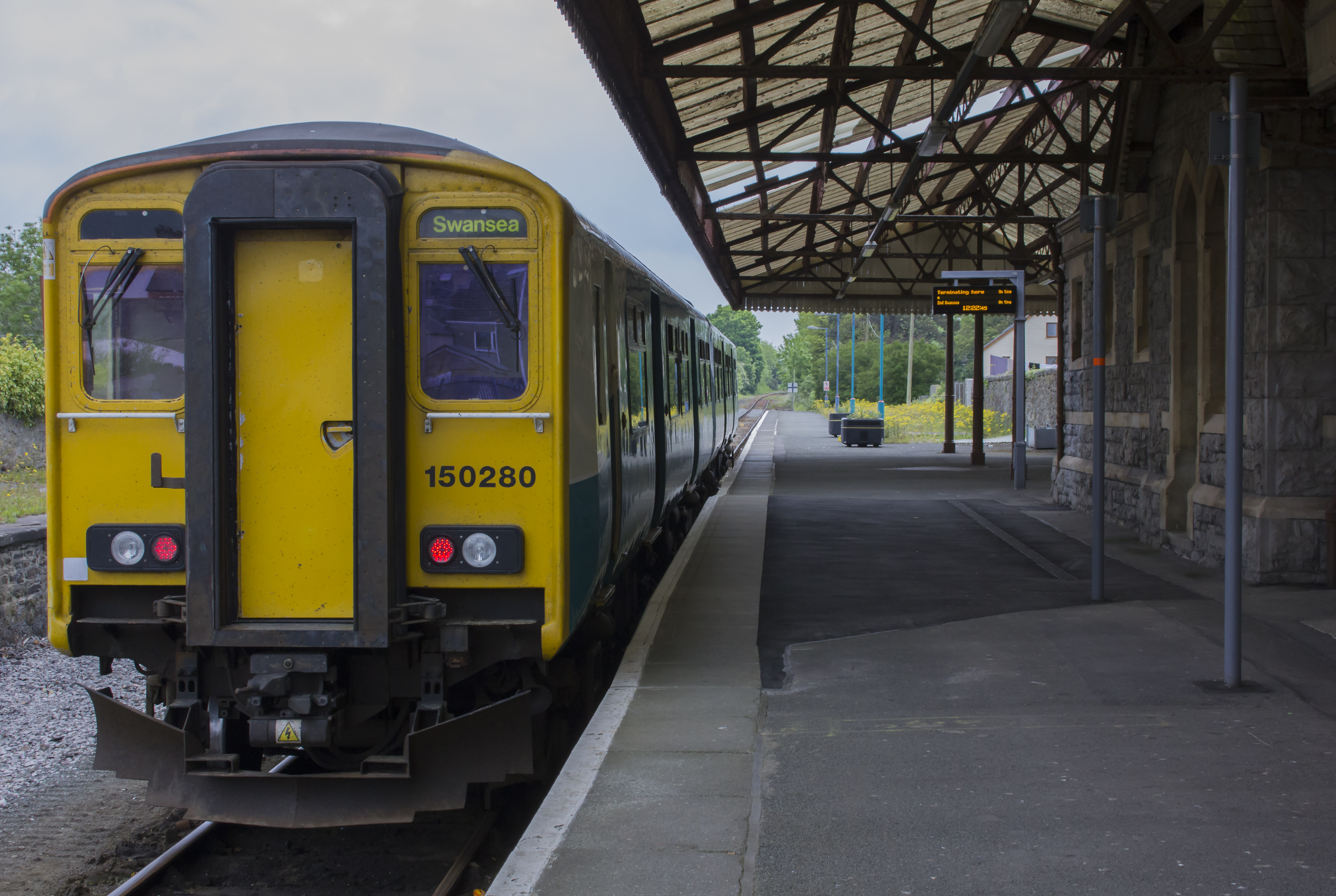 Class 150 Sprinter DMU 150280 stands at Pembroke Dock station on 26th May 2016. It has just arrived from Carmarthen and will depart at 1309 with the 2E17 service to Swansea.